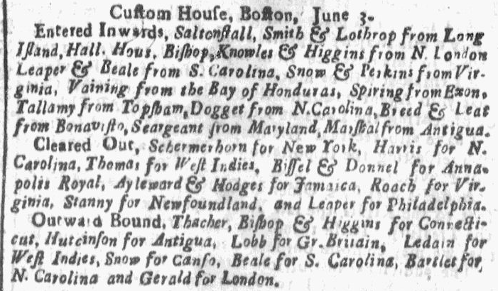 Newspaper item related to Boston, Massachusetts